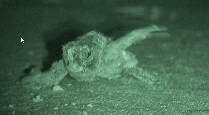 Loggerhead hatchling (Caretta caretta) on Jekyll Island, GA